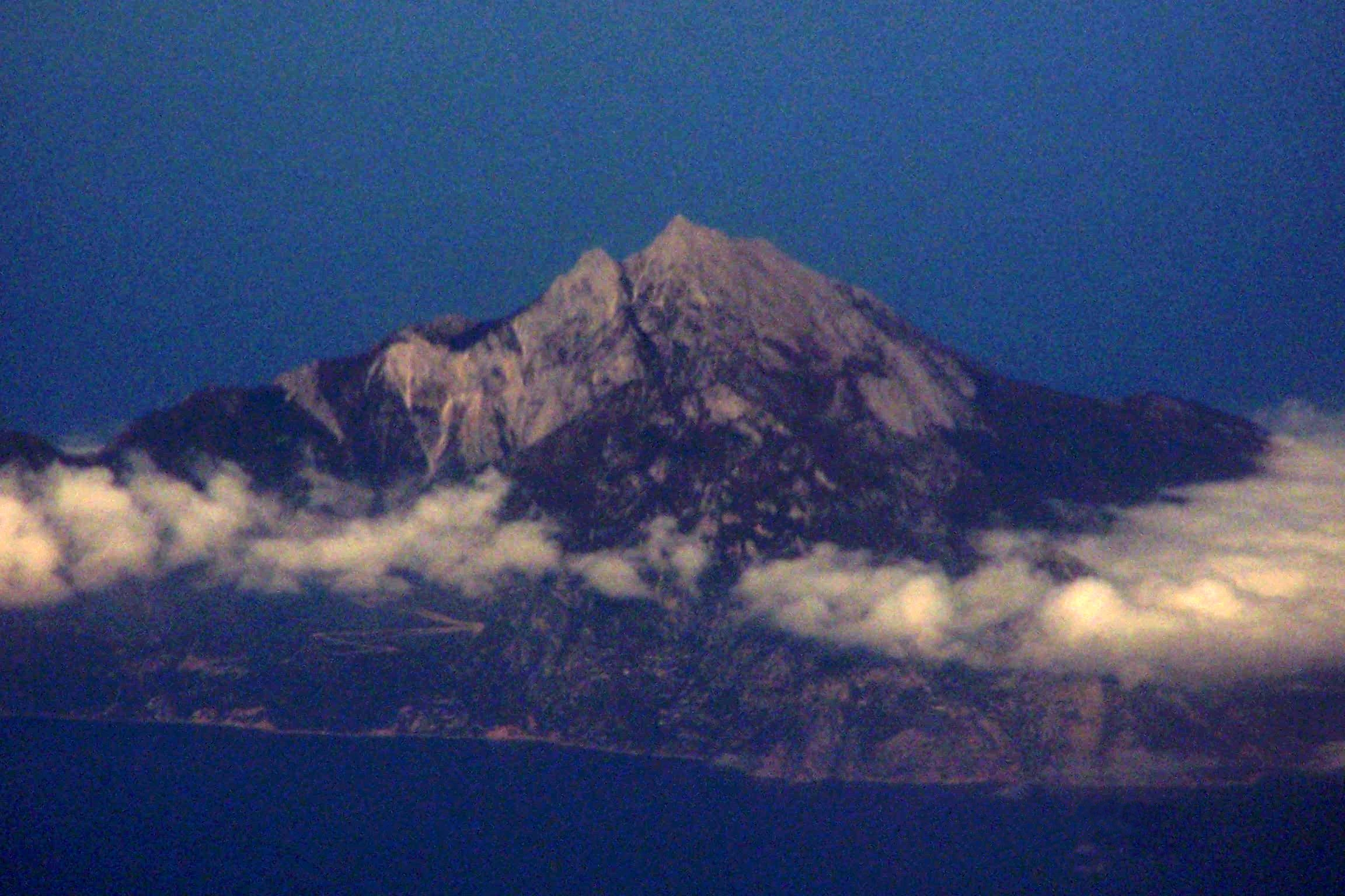 Mount Athos